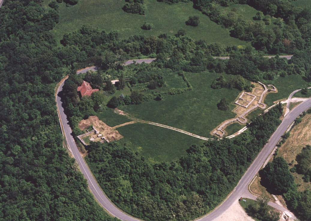 Sibrik Hill - Visegrád - Hungary - Europe